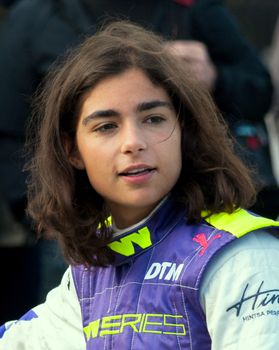 Jamie Chadwick at the W Series final at Brands Hatch